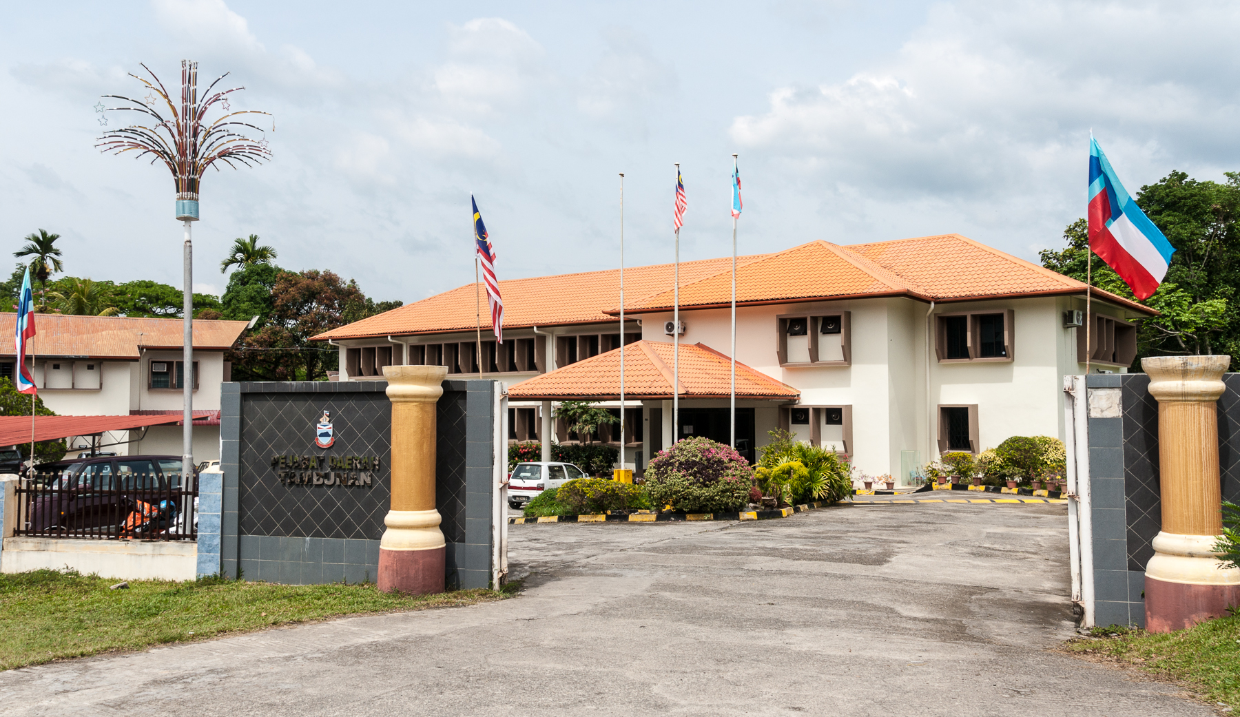 Tambunan District Office (Majlis Daerah Tambunan)